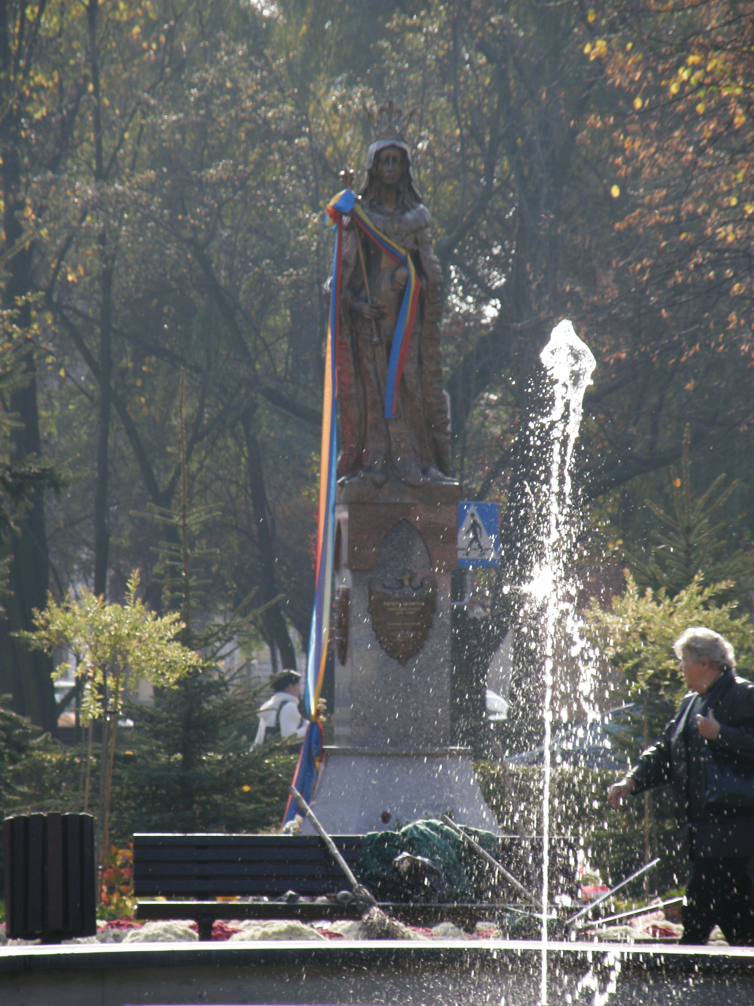 Jadwiga Andegaweńska in Radomsko